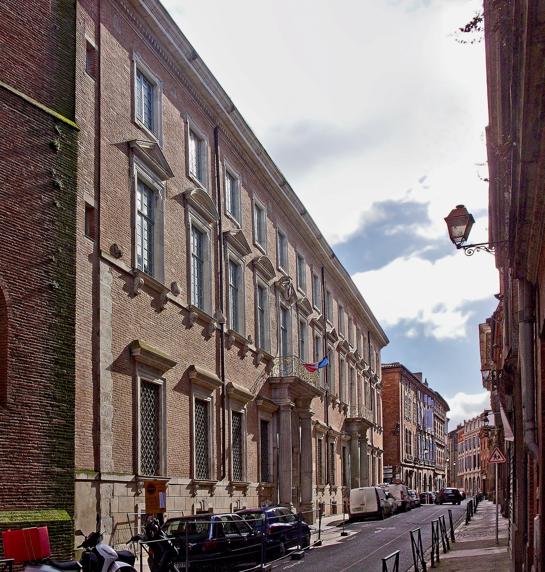 Hôtel des chevaliers de Saint-Jean de Jérusalem (Knights Hospitaller Knights Hospitaller), facade.